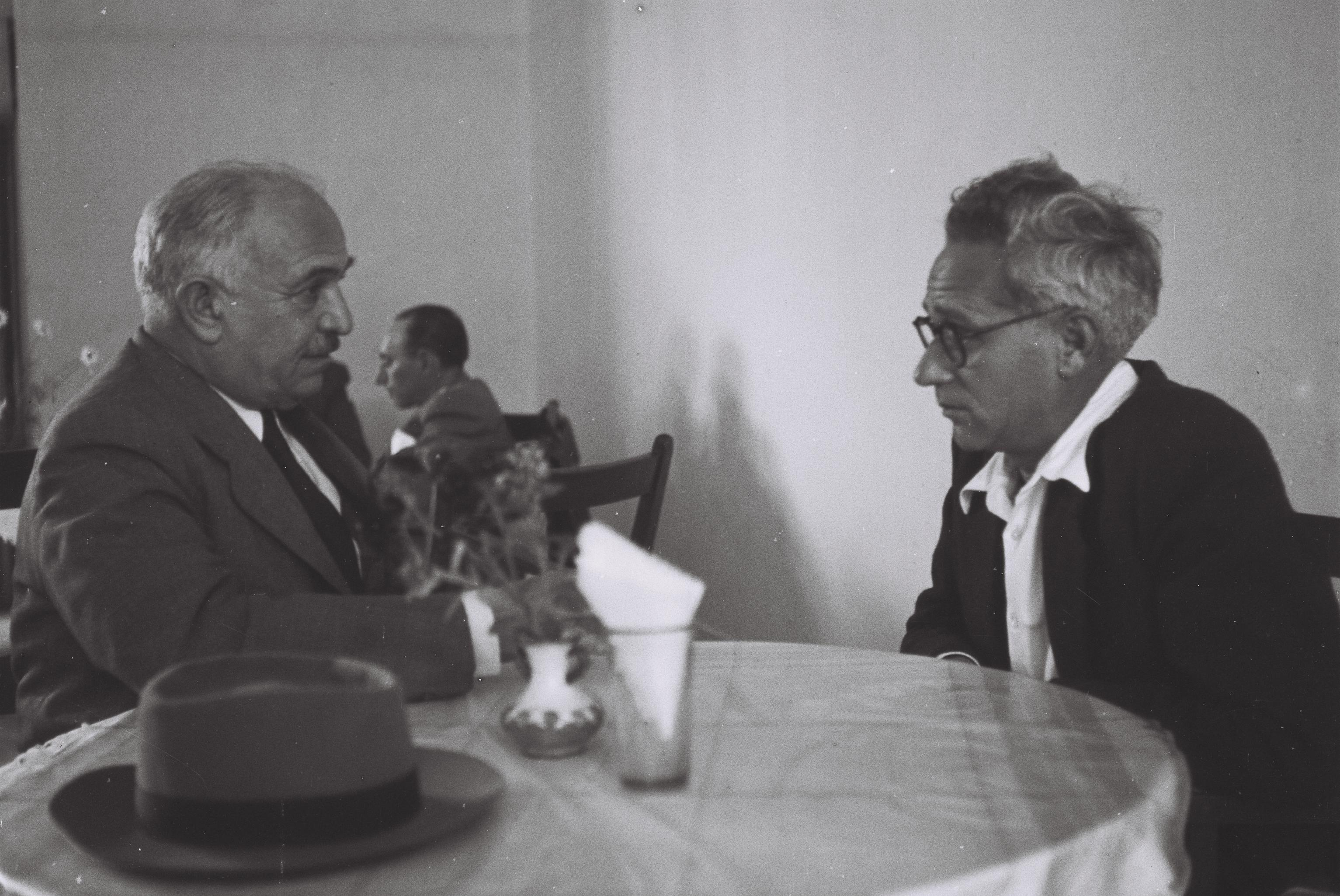 David Remez (l) and Berl Repetur during a break of the Zionist congress meeting.